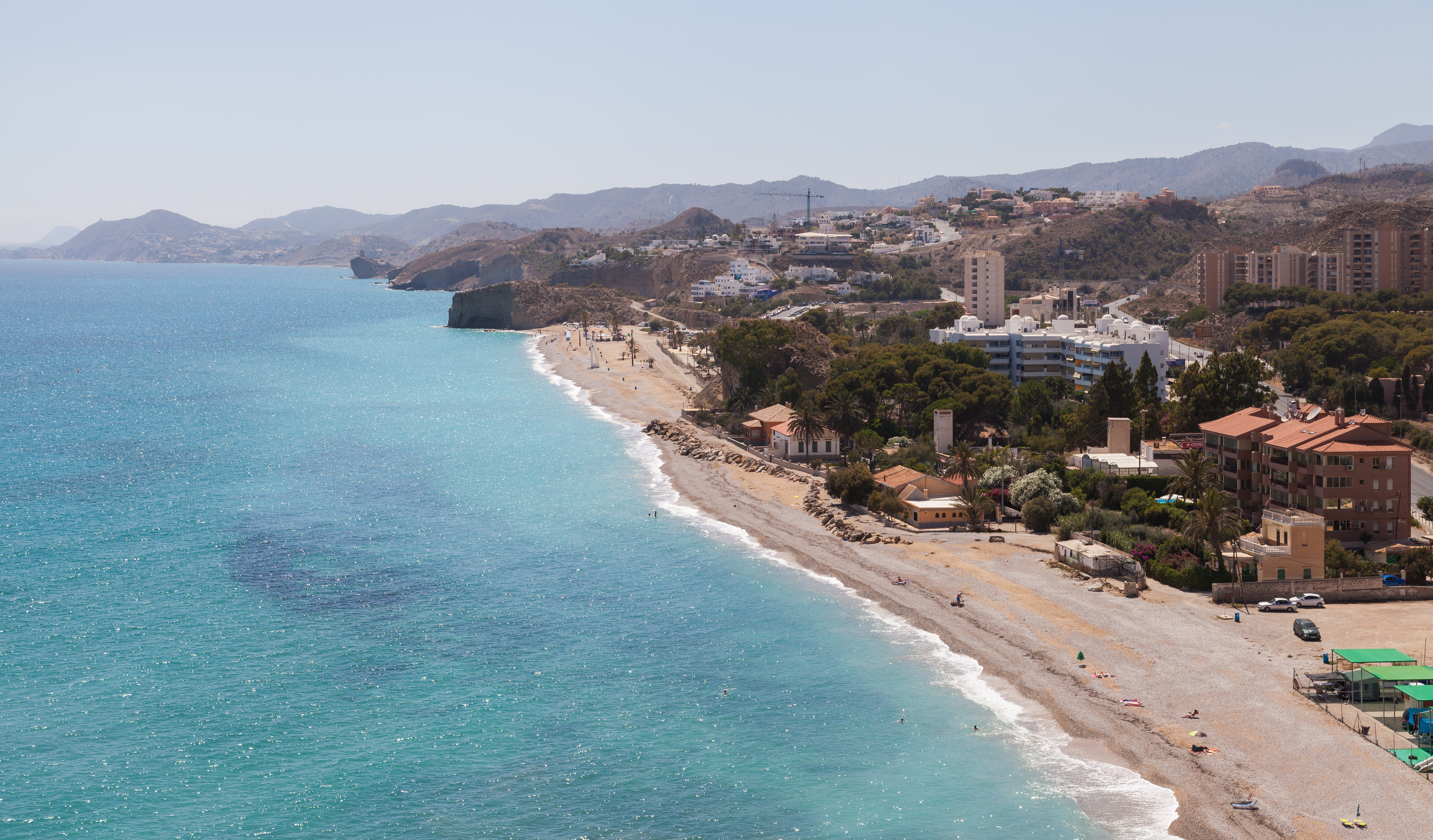 Paradise Beach, Villajoyosa, Spain